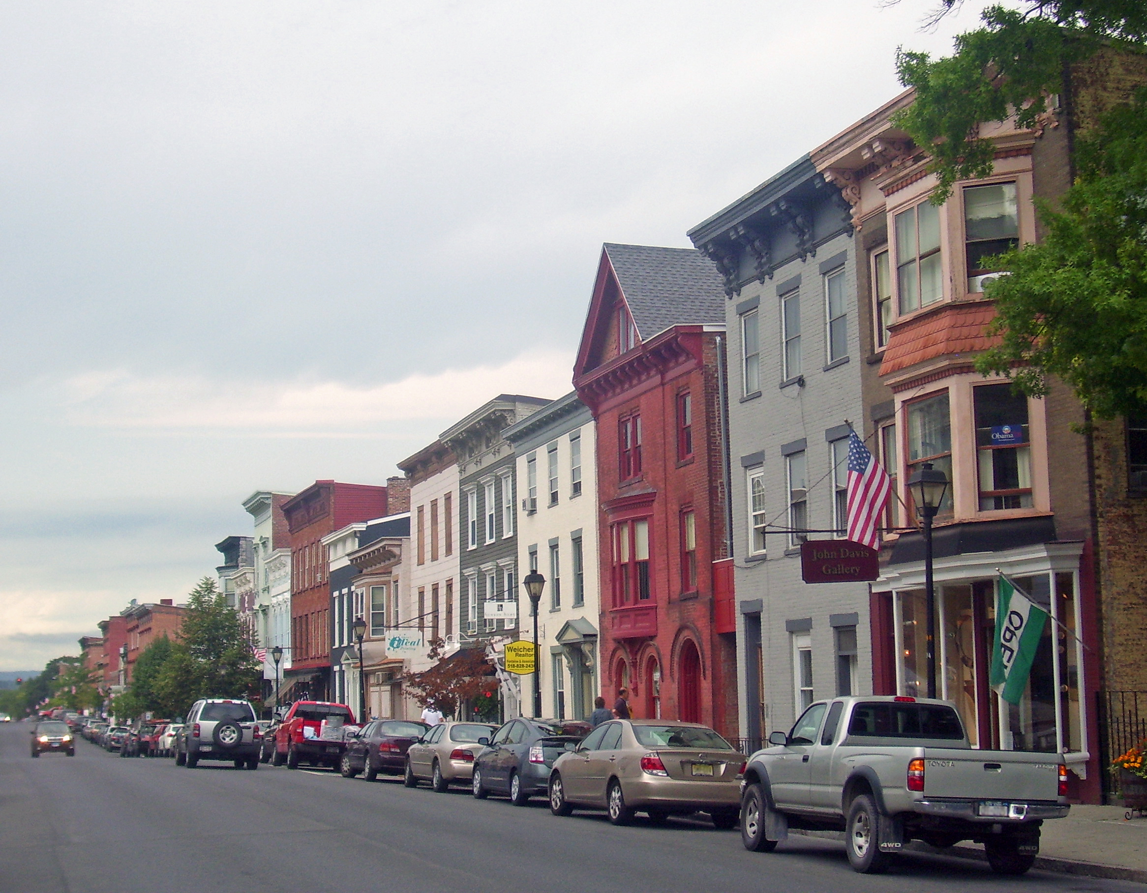 Looking west along Warren Street from South Fourth Street in the historic district, Hudson, NY, USA